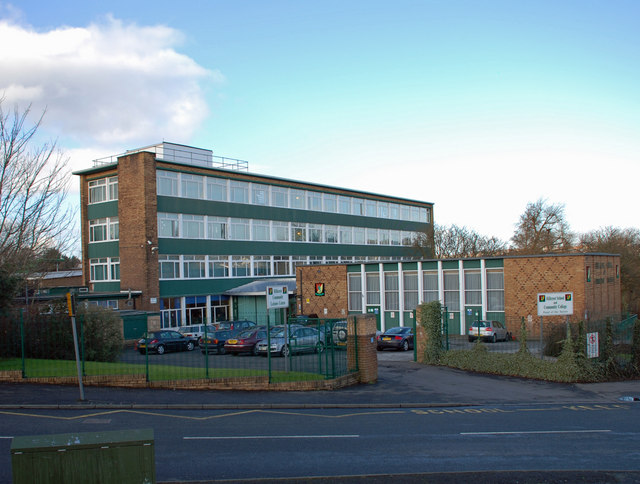 Hillcrest School, Netherton View from Simms Lane.